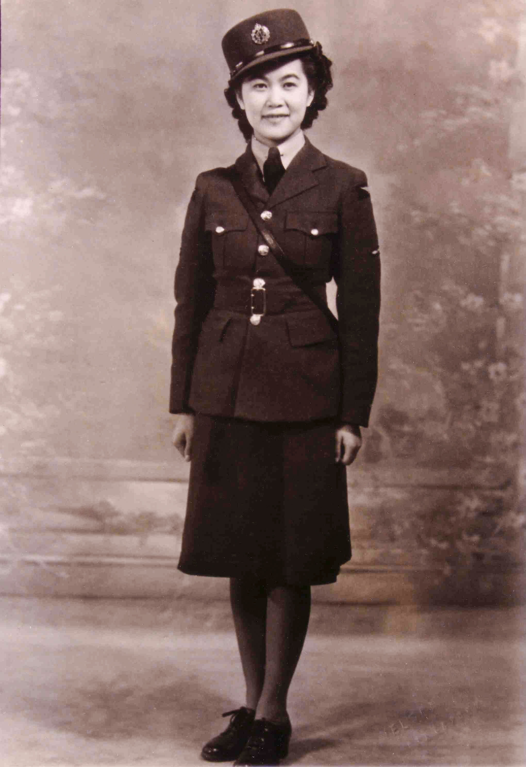 Jean Lee, the only Chinese Canadian Women to serve with the Royal Canadian Air Force in WWII.